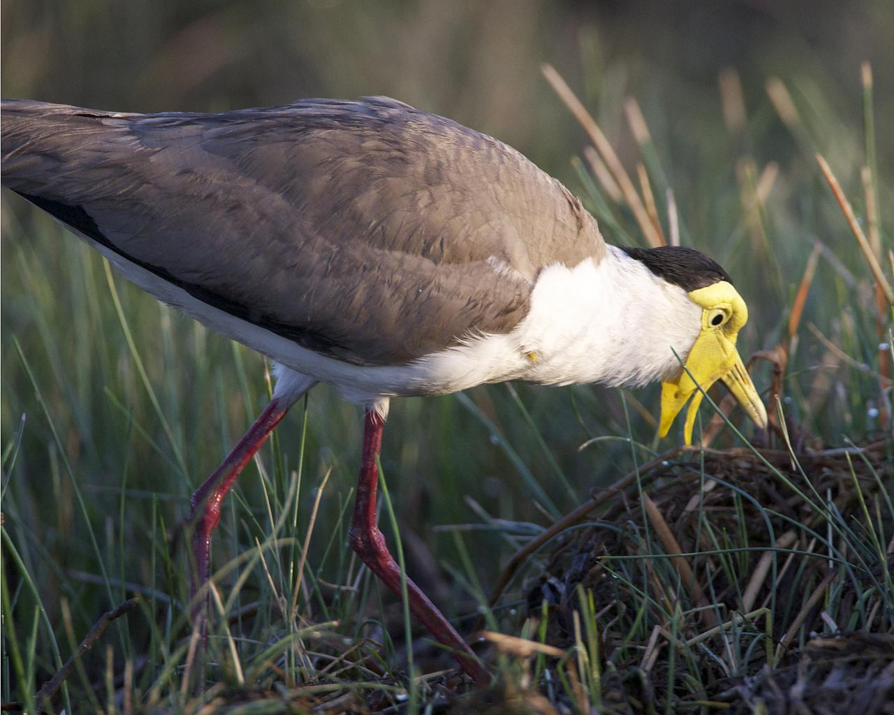 Masked Lapwing Vanellus miles nominate race Mary River, Northern Territory, Australia 8 August 2010 690V8540